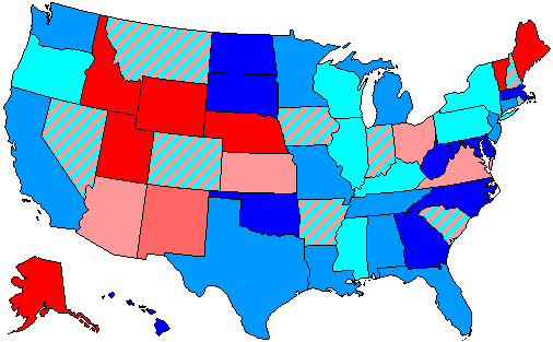 Summary of party control of U.S. house seats in the 98th United States Congress following election. Stripes indicate a tie between two or more parties. Legend: 80.1-100% Democratic seat majority 60.1-80% Democratic seat majority 60% or less Democratic seat plurality 60% or less Republican seat plurality 60.1-80% Republican seat majority 80.1-100% Republican seat majority